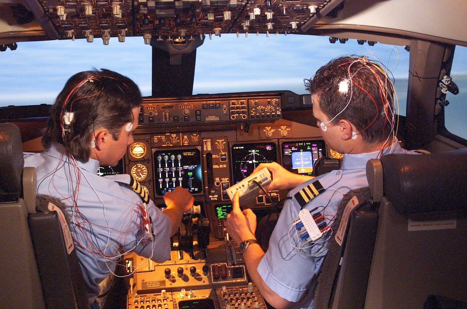 Crew Vehicle Systems Research Facility's Boeing 747-400 Simulator at NASA Ames Research Center. Trials of Fatigue Countermeasures. In cockpit, pilots (L) Brian Spence and (R) Mike Holmboe.